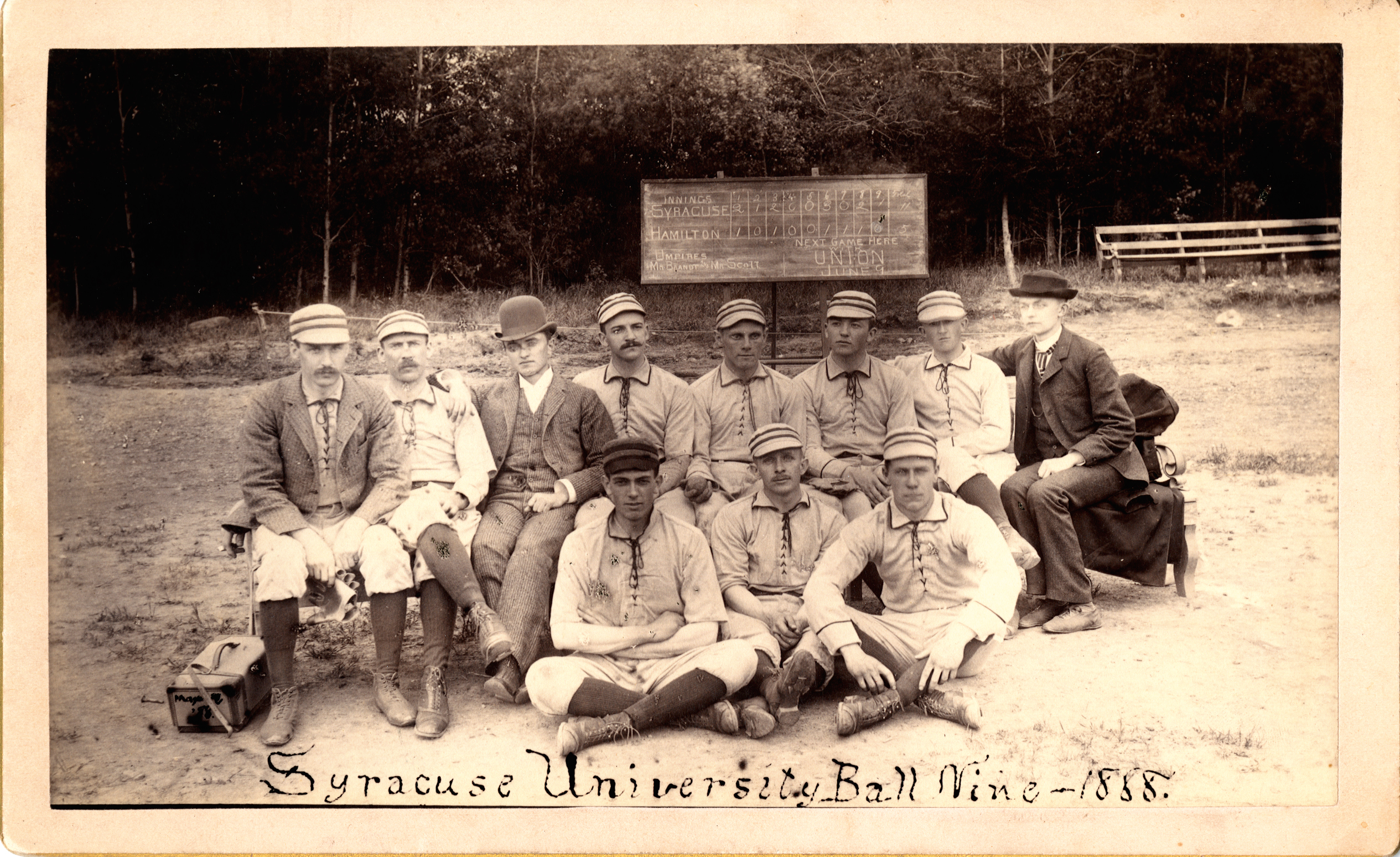 Syracuse University baseball team, the "Ball Nine", 1888 (Courtesy SU Archives). The scoreboard reads "Syracuse University 11, Hamilton College 5. Next game here: Union College, June 9."